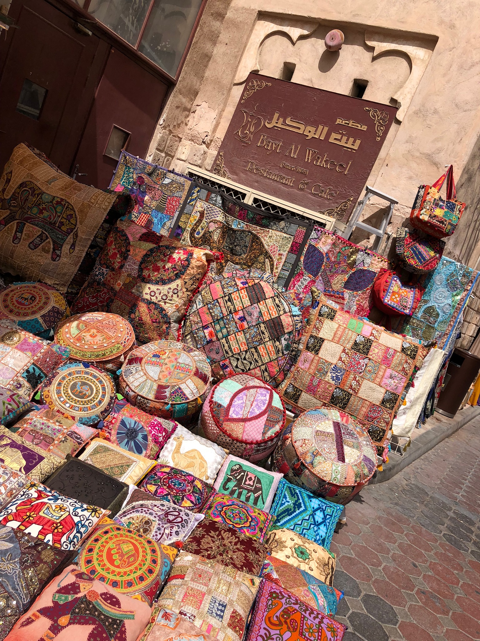 Part of the Bur Dubai Souk streets